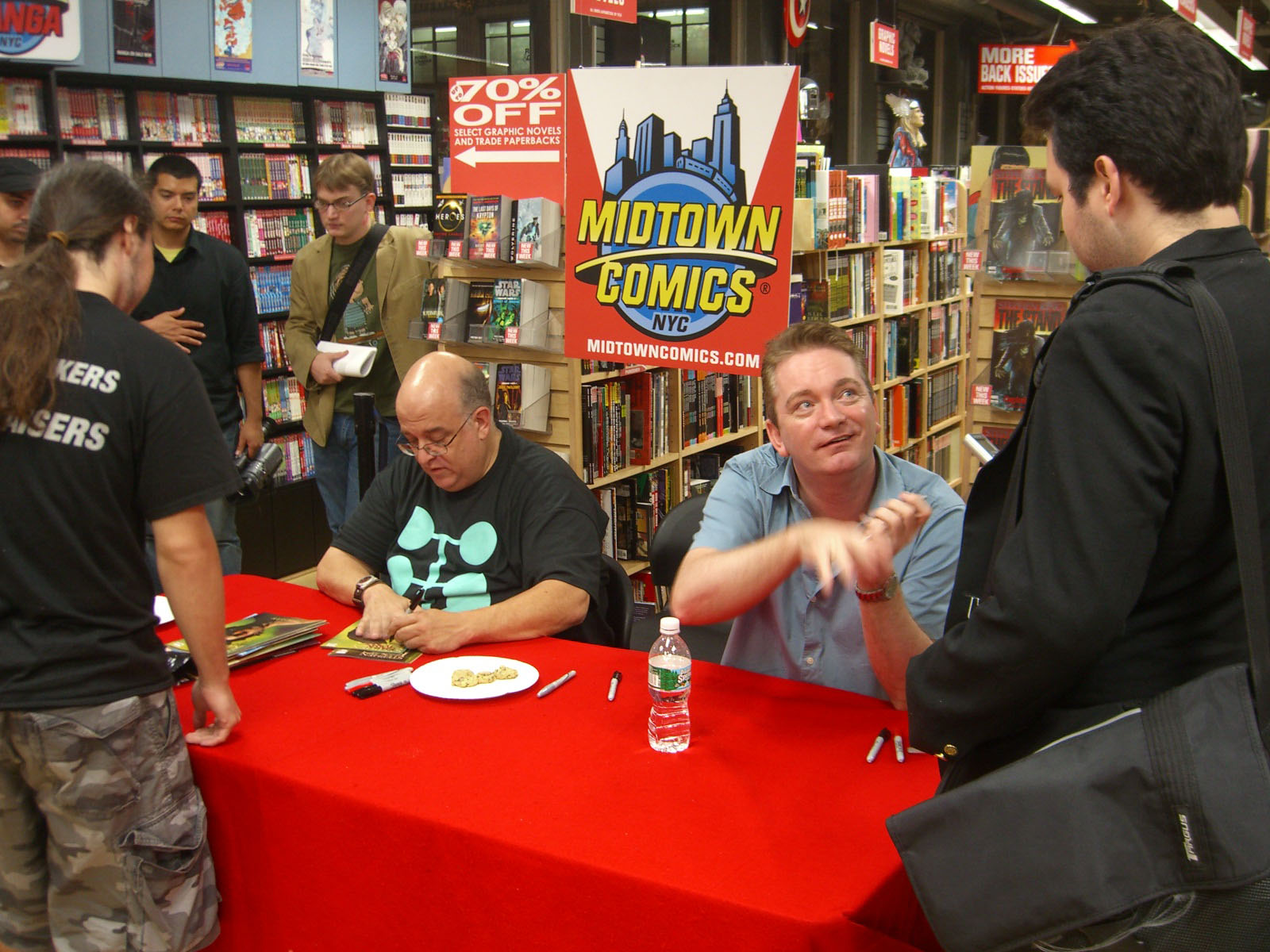 Writer Peter David and artist Mike Perkins at the September 10, 2008 midnight signing of The Dark Tower: Treachery and The Stand: Captain Trips at Midtown Comics in Times Square, New York. This photo was created by Luigi Novi. It is not in the public domain, and use of this file outside of the licensing terms is a copyright violation.